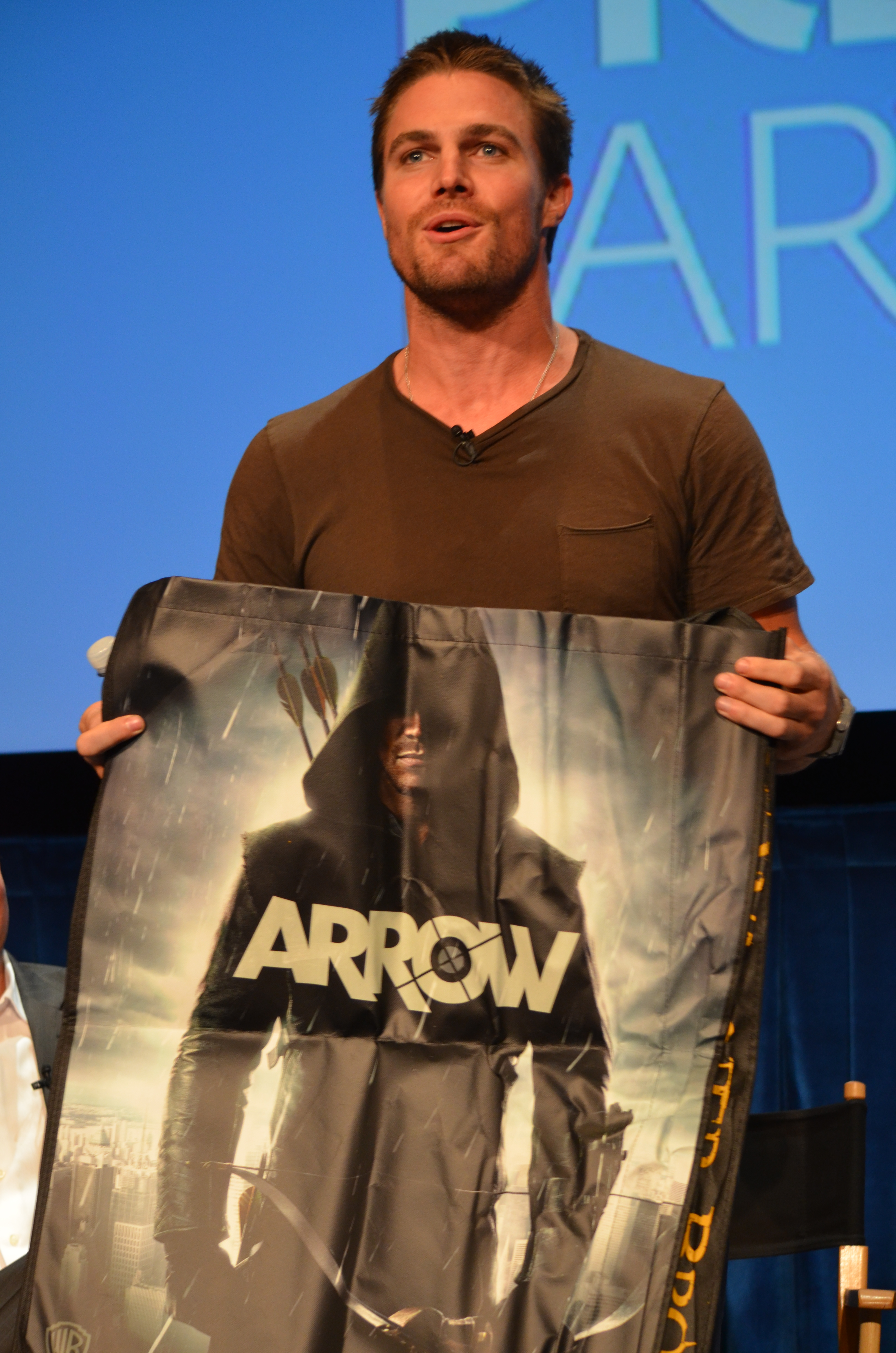 talking about encounters with people toting Arrow bags at Comic Con.